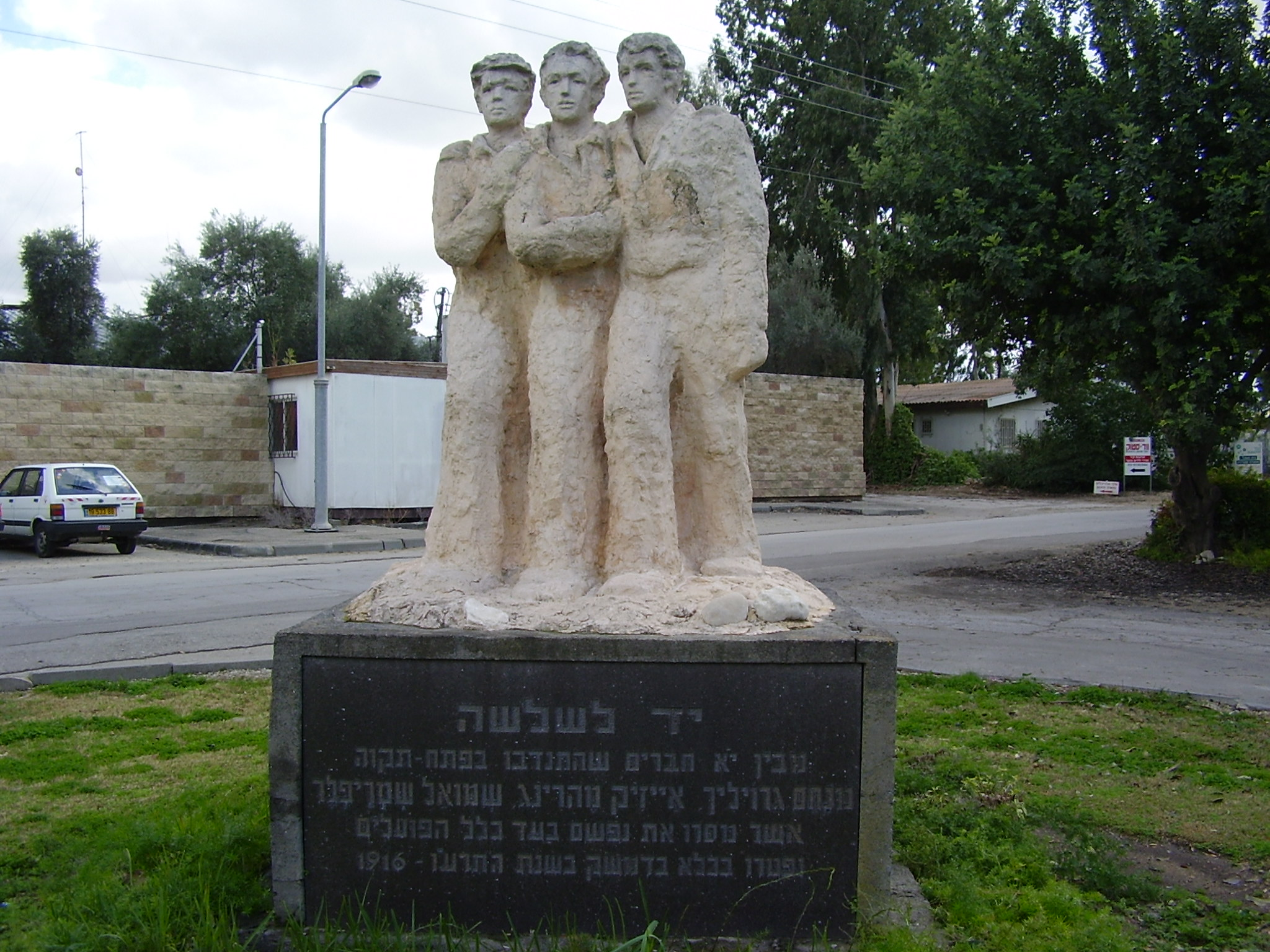 Memorial to 3 jewish workers who died in a turkish prison in world war one, kibutz einat, israel. by Batia Lichansky.